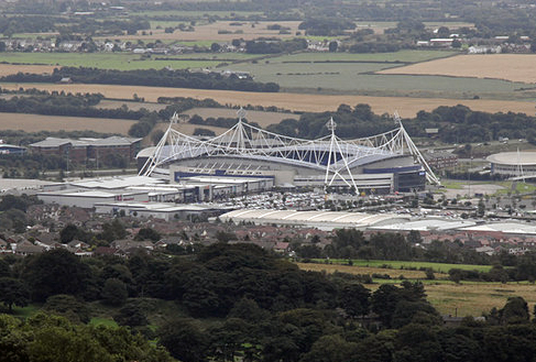 Macron Stadium from Crooked Edge Hill, in Horwich, Greater Manchester, England.